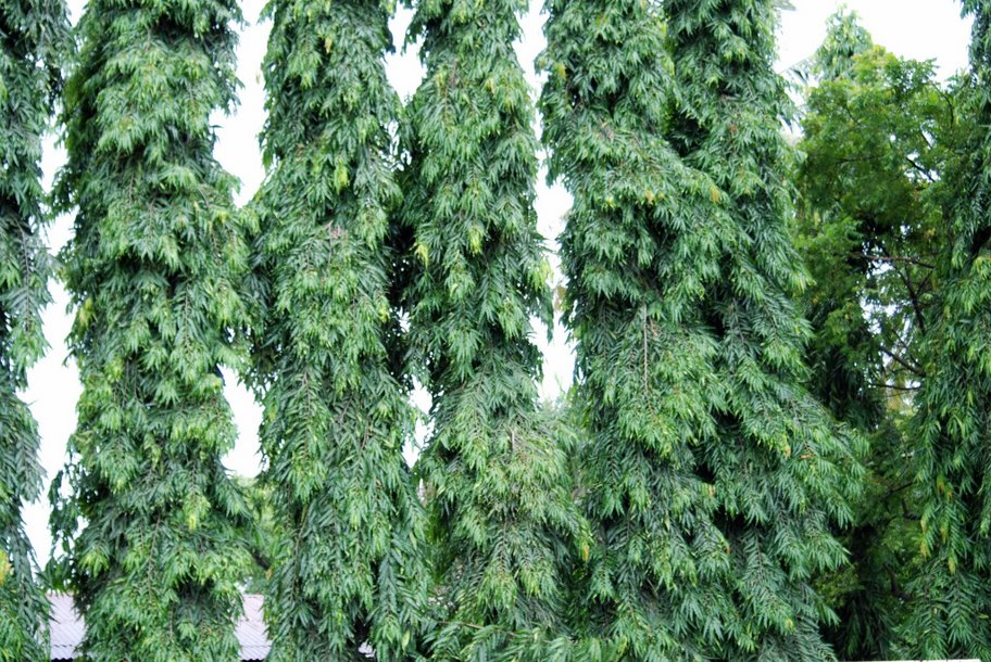 Mast-trees Polyalthia longifolia